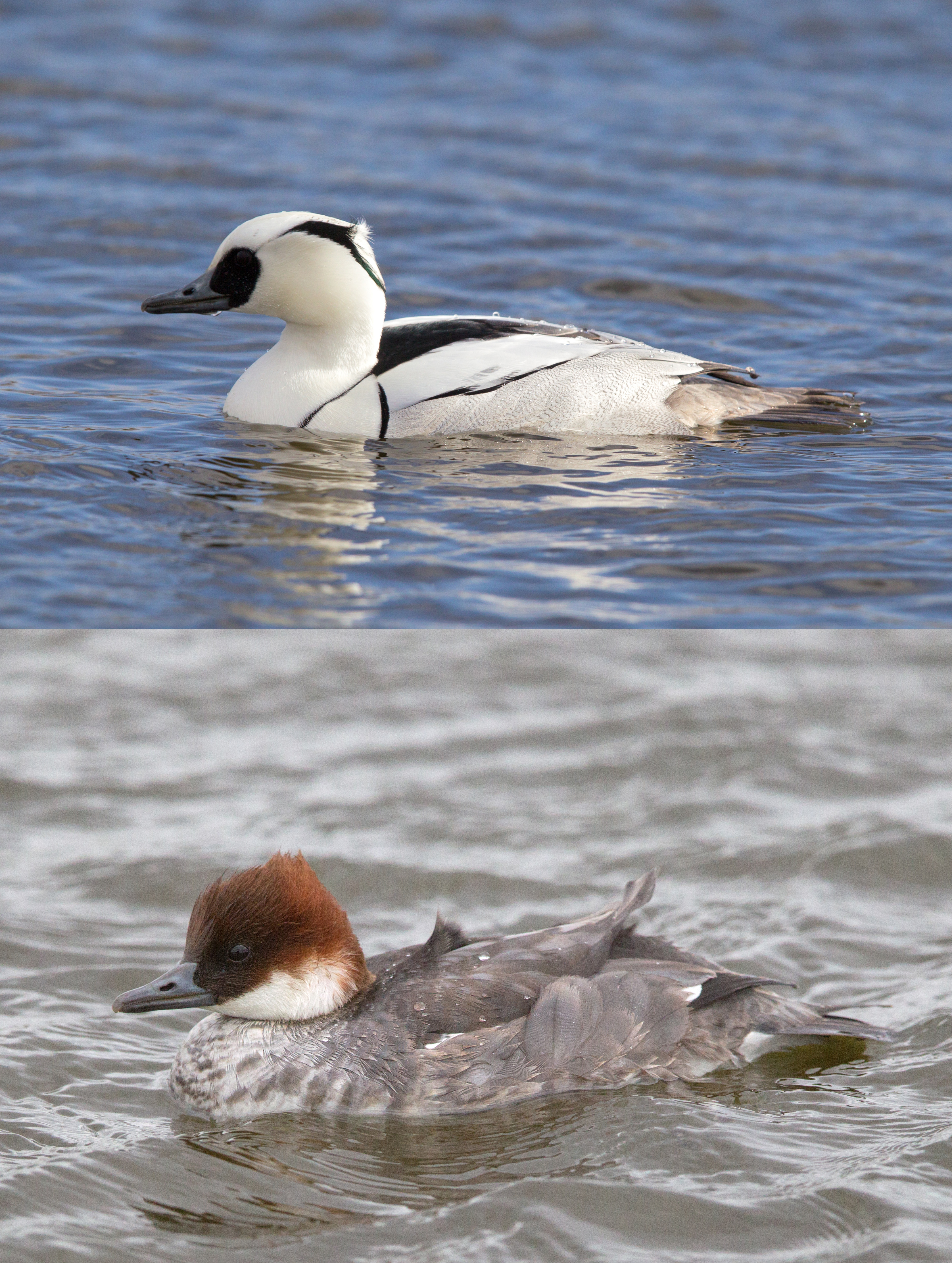 Male and female Smew